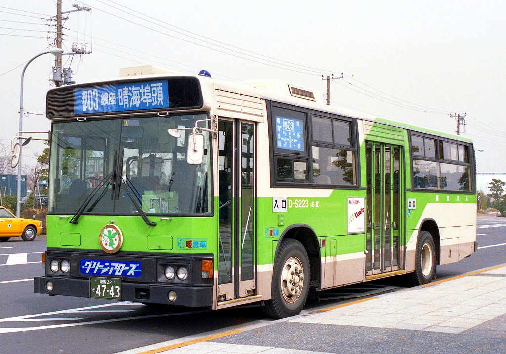 Tokyo Toei bus Hino Blue Ribbon P-HU233BA for "To-03 green-arrows"